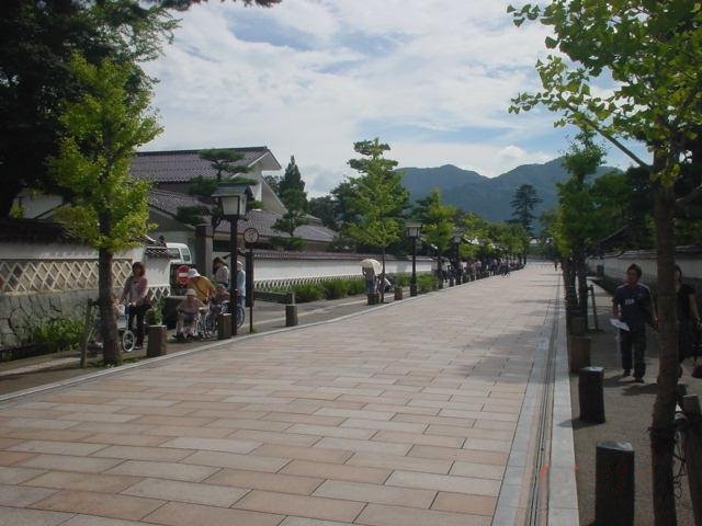 An attractive old street in Tsuwano Photograph © Ian Ruxton (Historian), en:11 September en:2004.